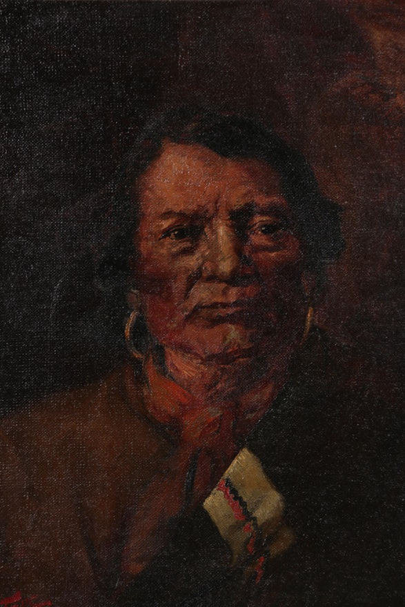 Portrait of Chief Ignacio, leader of the Ute people, painted by Carl Lotave, 1905